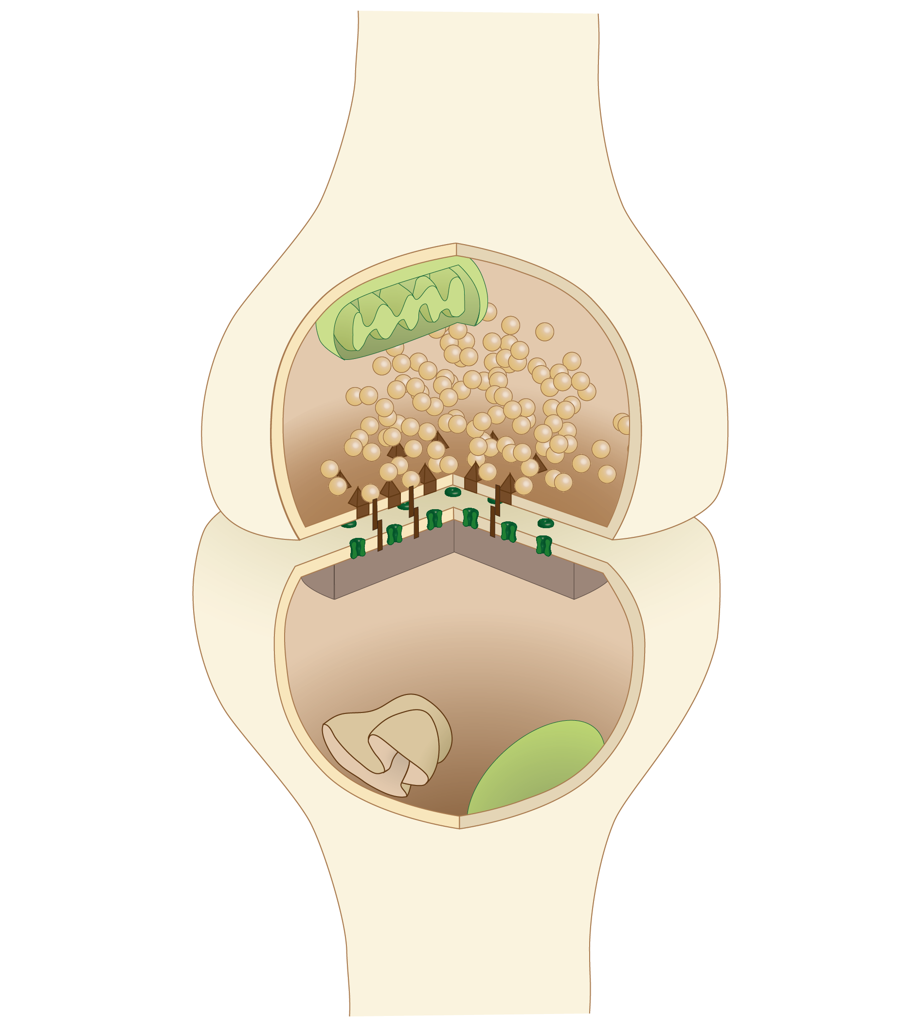 This is a diagram of a typical central nervous system synapse. The presynaptic and postsynaptic neuron are on top and bottom. Mitochondria are light green, receptors dark green, postsynaptic density is in grey, Brown pyramids represent protein clusters composing the active zone, cell adhesion molecules are brown rectangles, synaptic vesicles are tan spheres, endoplasmic reticulum is the tan structure on the bottom left.